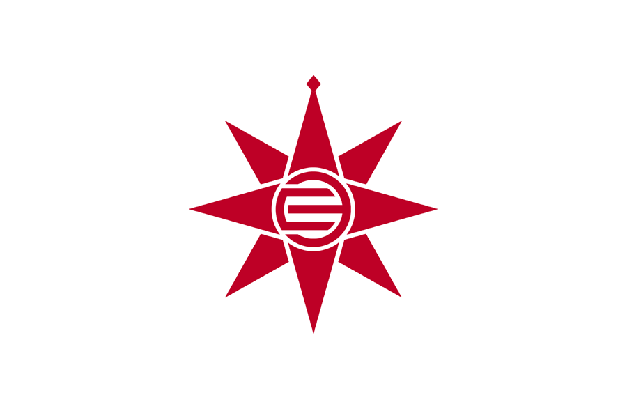 Flag of Yokosuka, Kanagawa